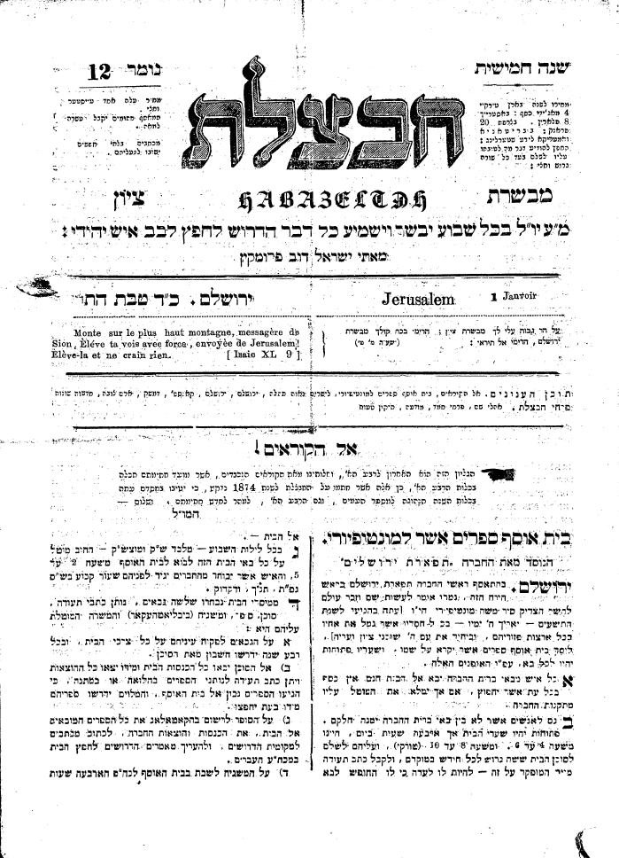 havazelet v.5 n.12